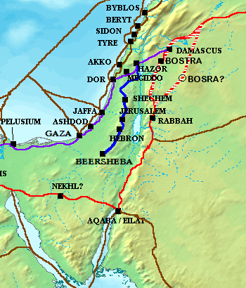 Way of the Patriarchs (blue), Via Maris (purple), King's Highway (red), and other ancient Levantine trade routes (brown), c. en:1300 BCE